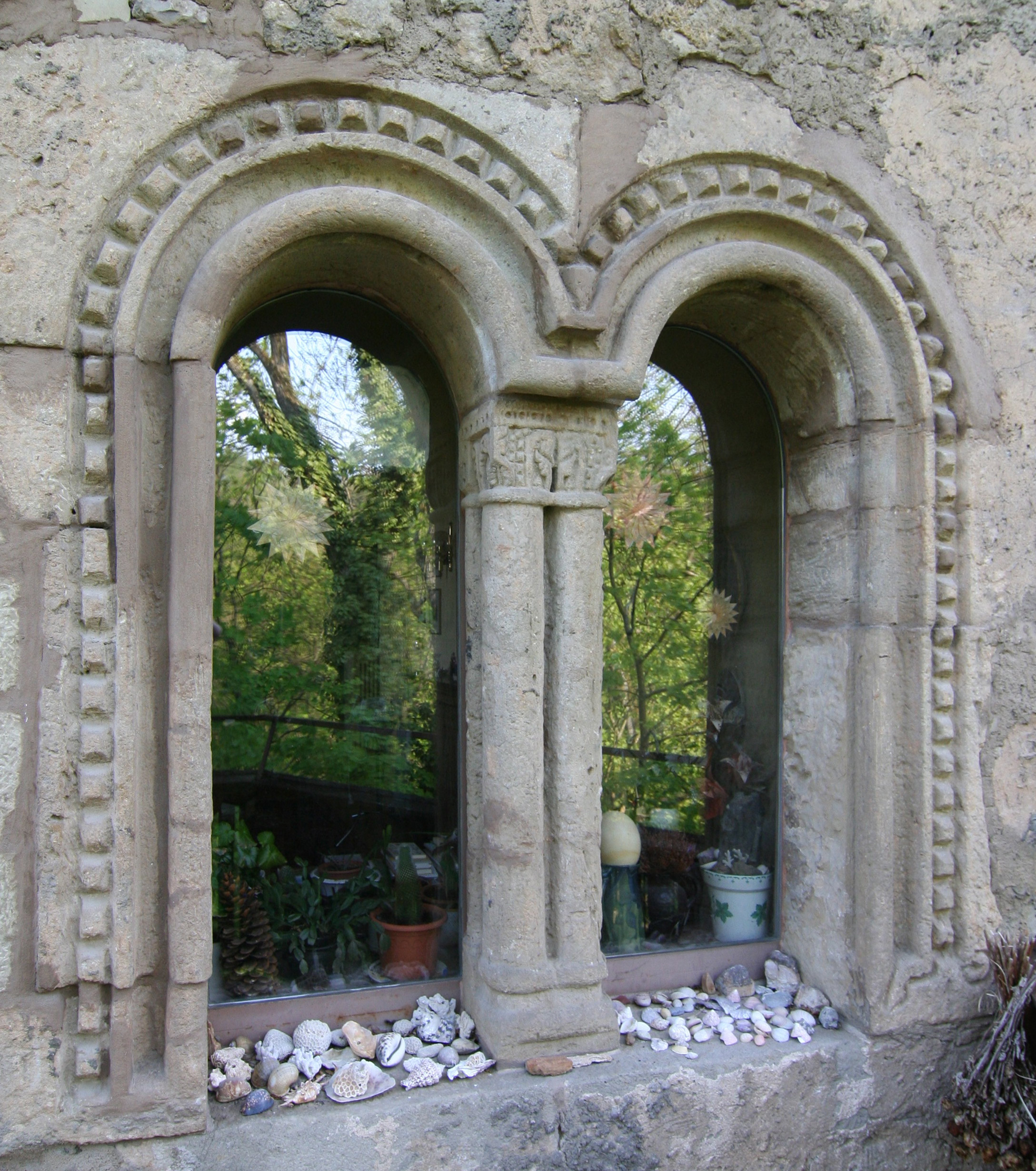 Coupled semi-circular arched window (twinned windows) at the Romanesque Turmpalas of Hornberg castle in Neckarzimmern